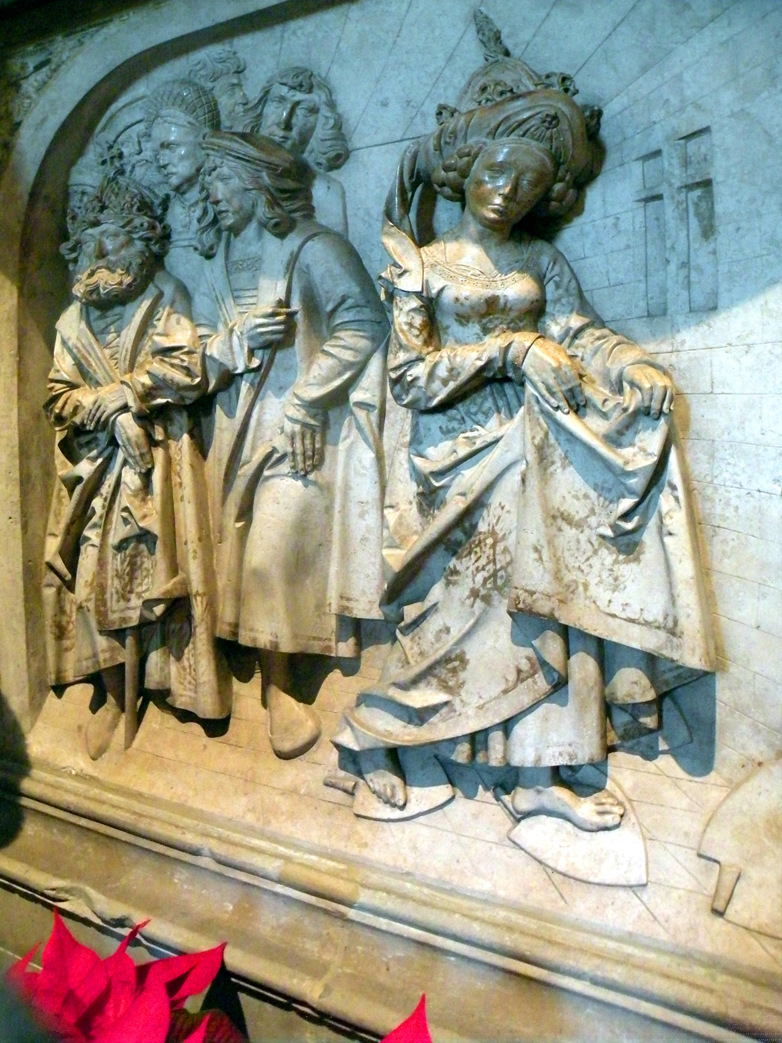 The exam of Cunigunde of Luxembourg . Tilman Rimenschneider. Dom. Grab